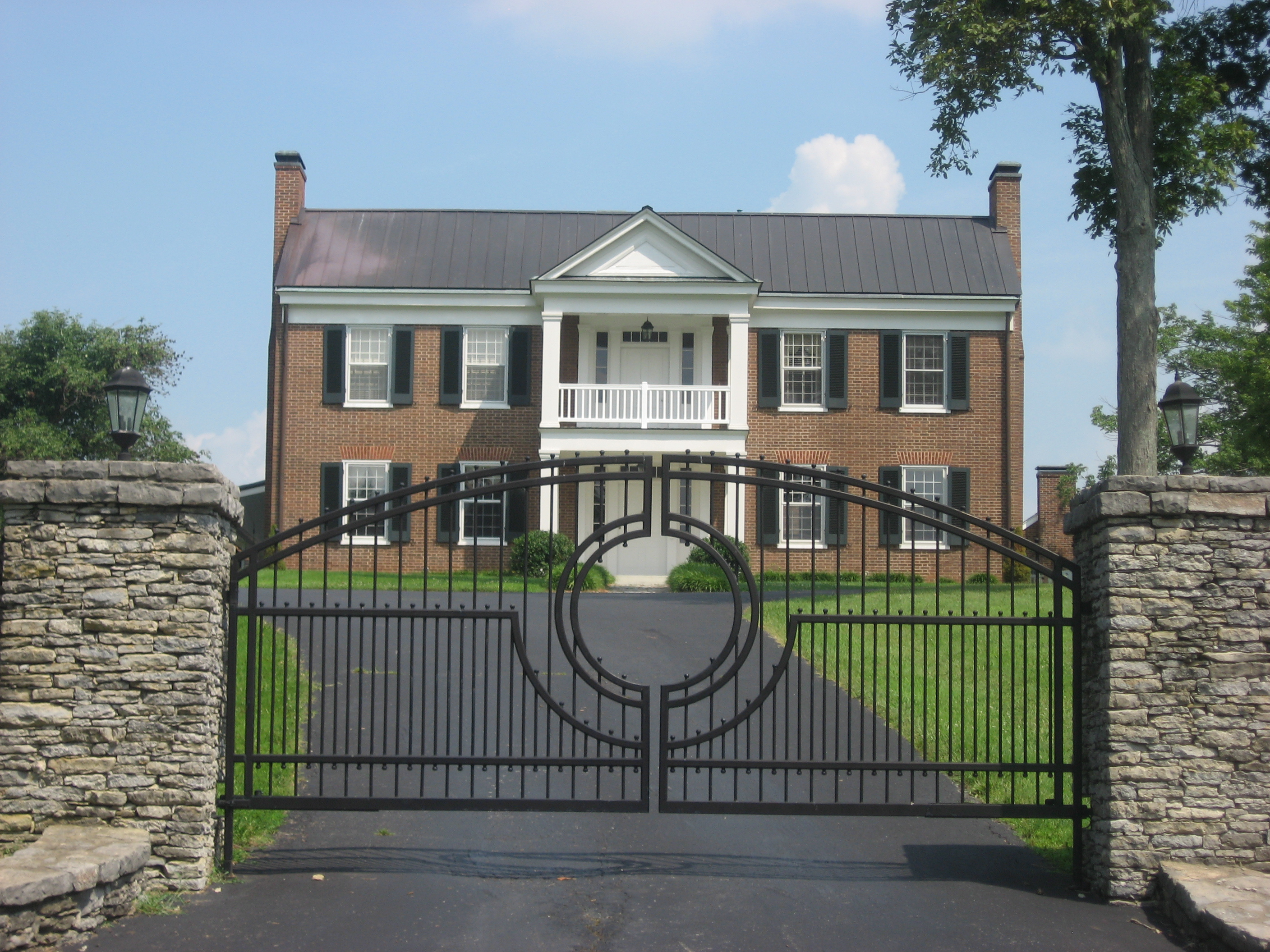 Entrance to Clay Hill, located along Kentucky Route 55 north of Campbellsville in Taylor County, Kentucky, United States. Built in 1835, it is listed on the National Register of Historic Places.